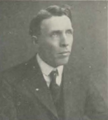 Fred Gustus Johnson was a Nebraska attorney who served in the state legislature, as lieutenant governor, as a member of Congress, and as a state court judge.